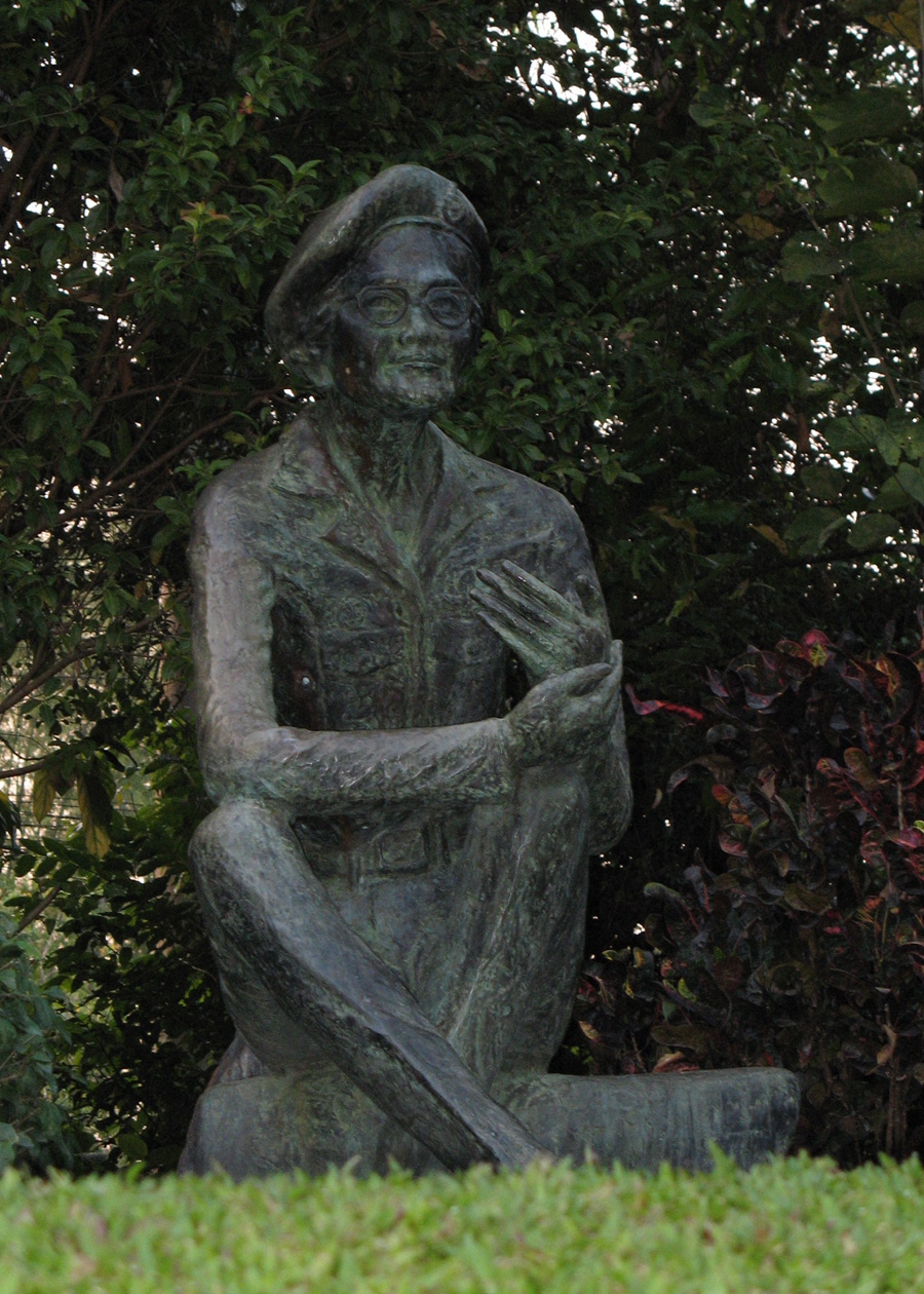 Princess Srinagarindra, Princess Mother Monument at Rai Mae Fah Luang, Chiang Rai Province.